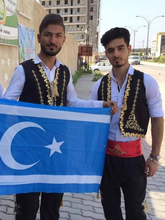 Iraqi Turkmen folk dancers